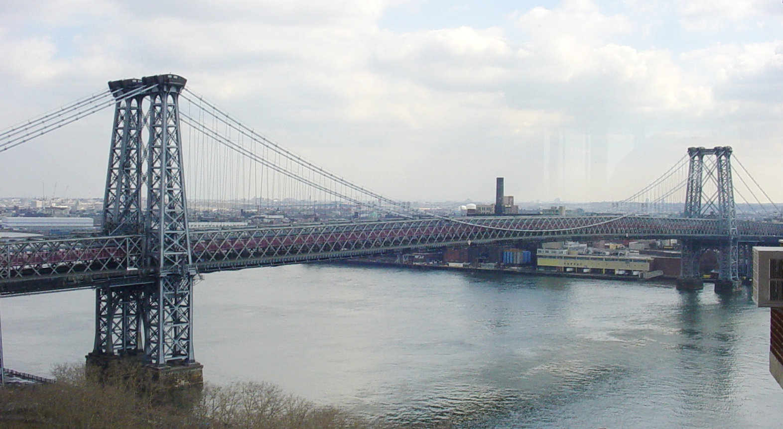 Williamsburg Bridge spanning over the East River in New York City.